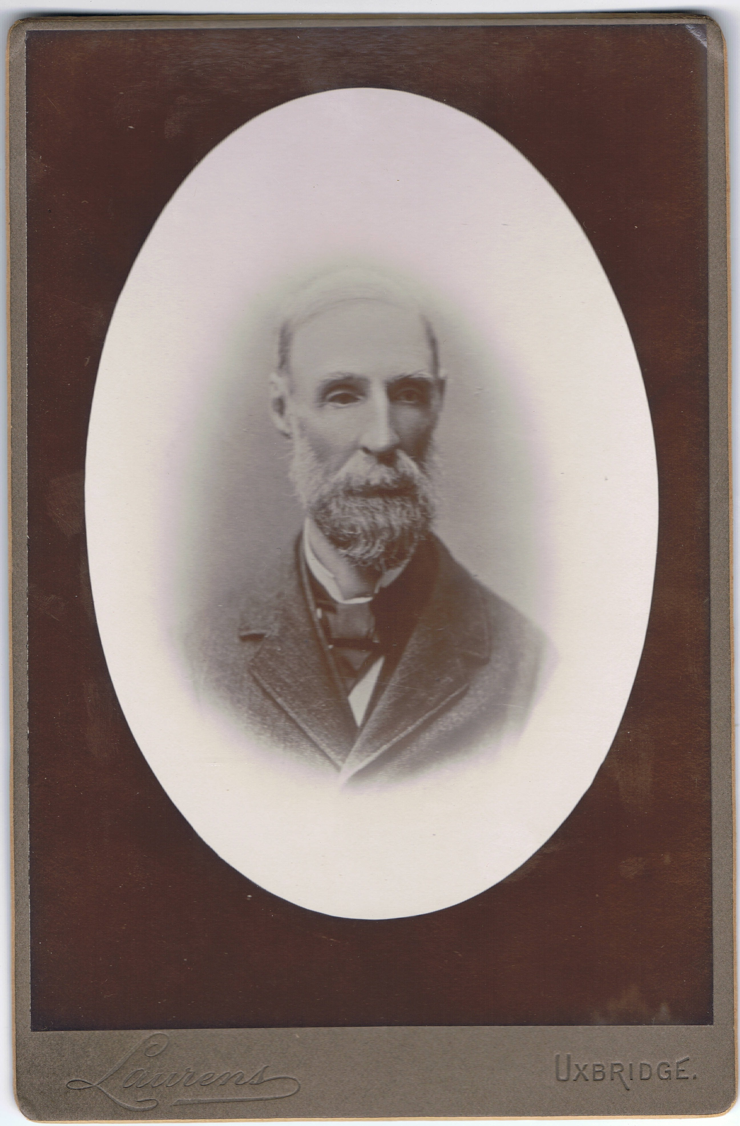 Leopold De Salis, brother of William Fane de Salis. Scan (October, 2007) of photo.Rodolph 17:30, 19 October 2007 (UTC)